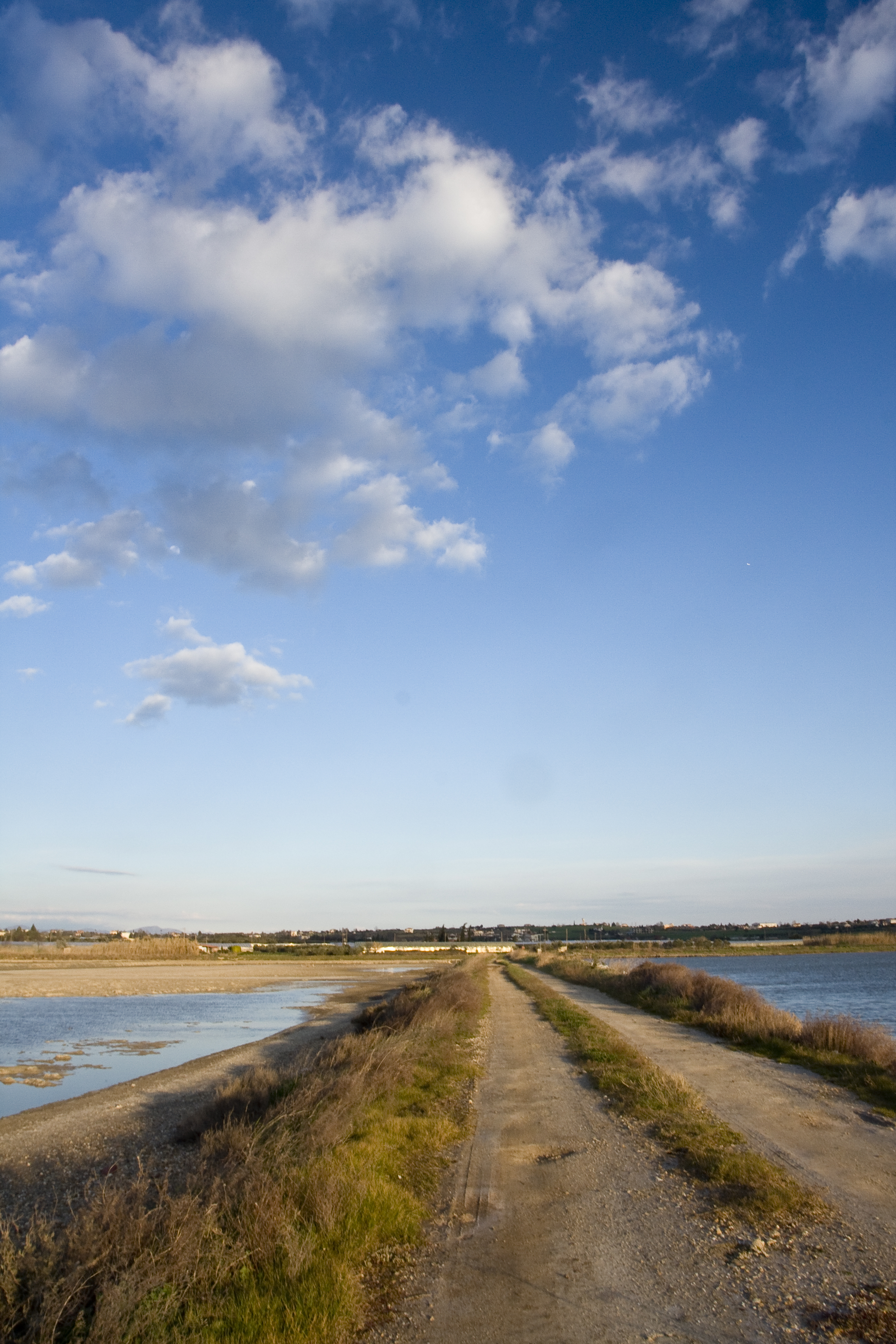 Aggelochori_lagoon_salt_flats This is a photography of Natura 2000 protected area with ID GR1220005